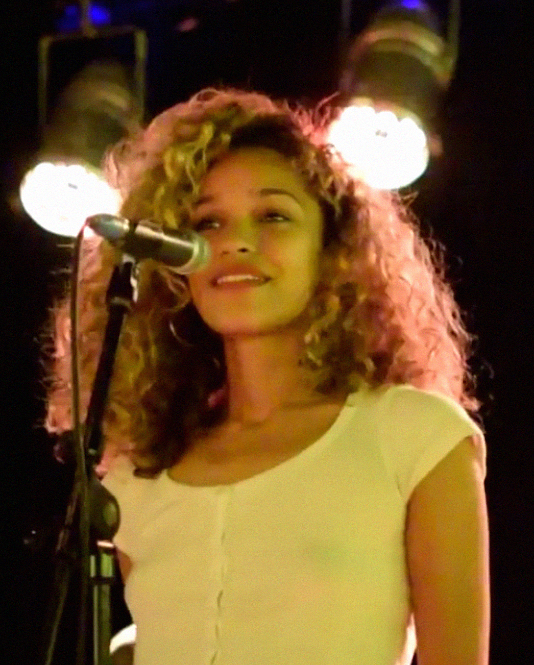 Izzy Bizu performing at London Fields Brewery in September 2015